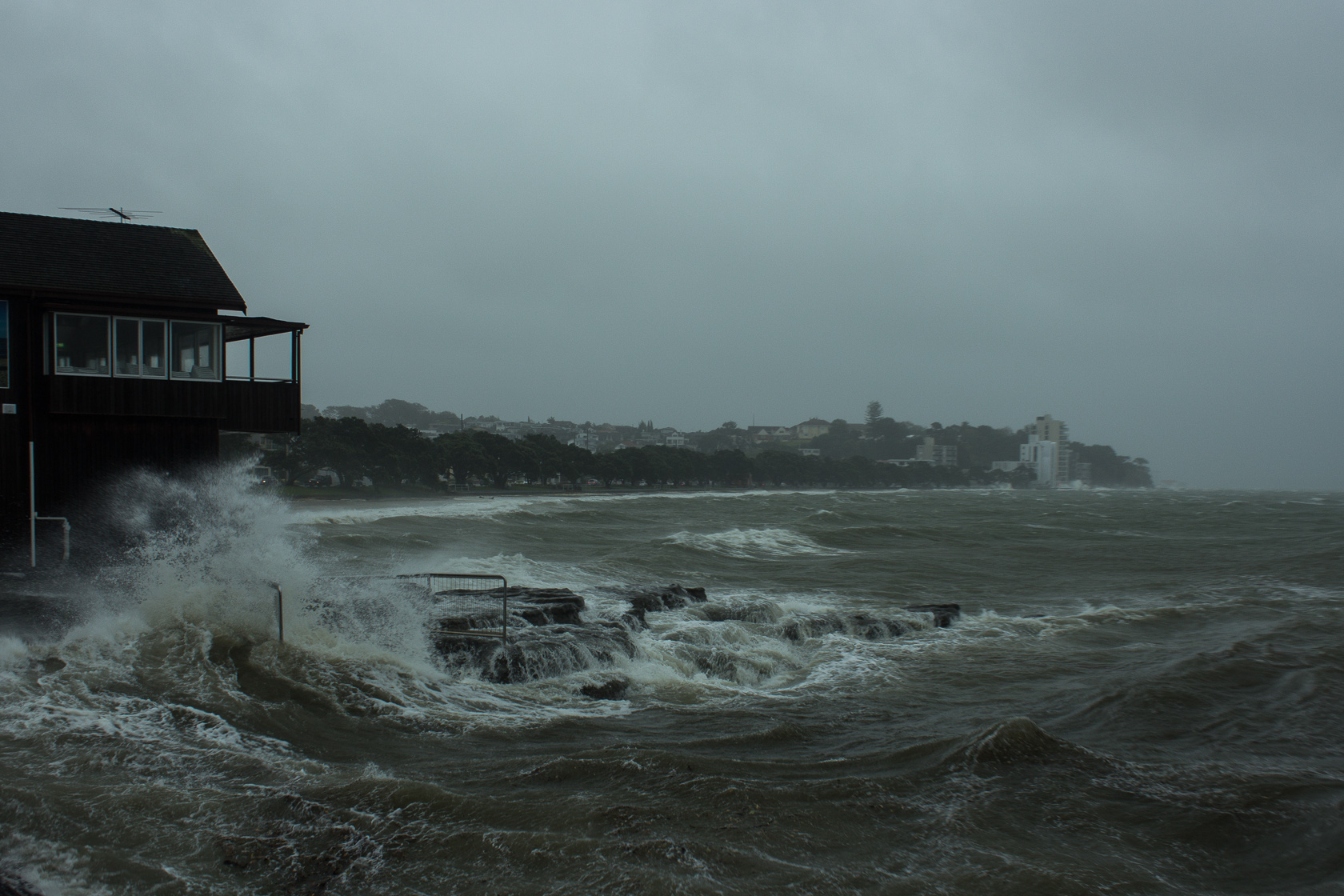 Cyclone Ita